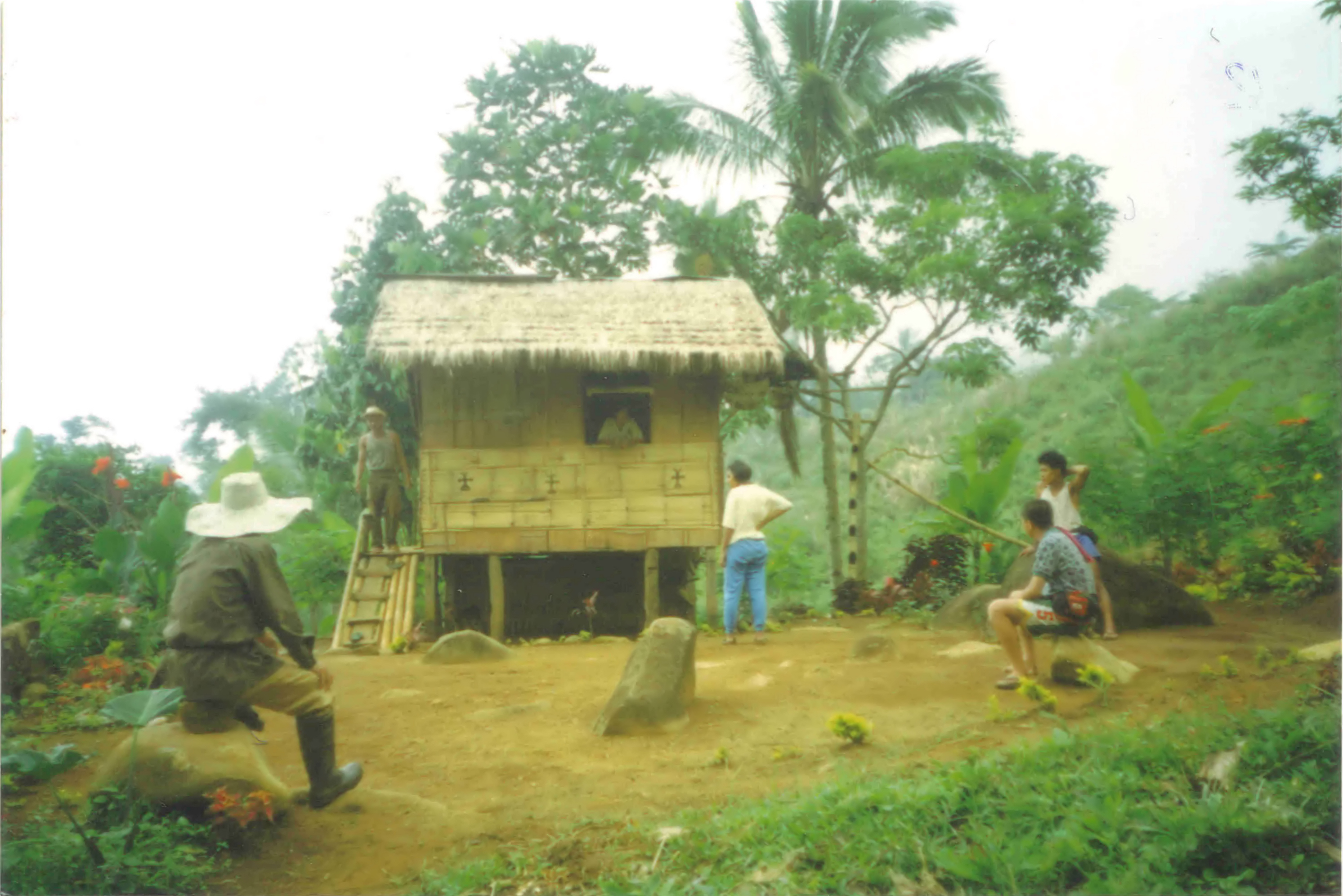 A small Subanen village on Mount Malindang - own work, mid october 1997